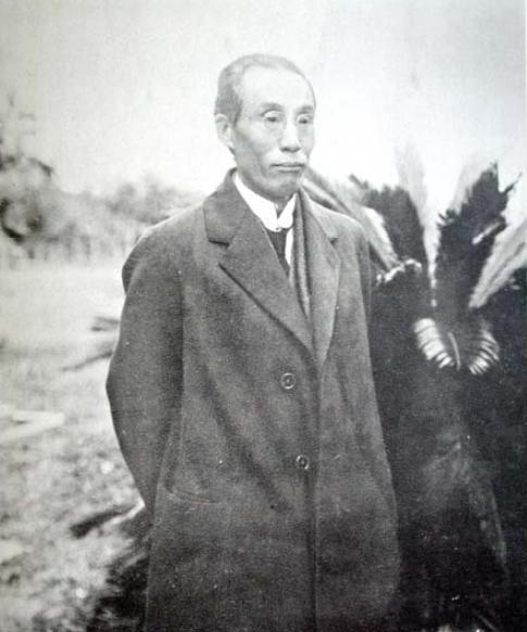 Japanese botanist Bunzō Hayata (早田文藏) (1874–1934)